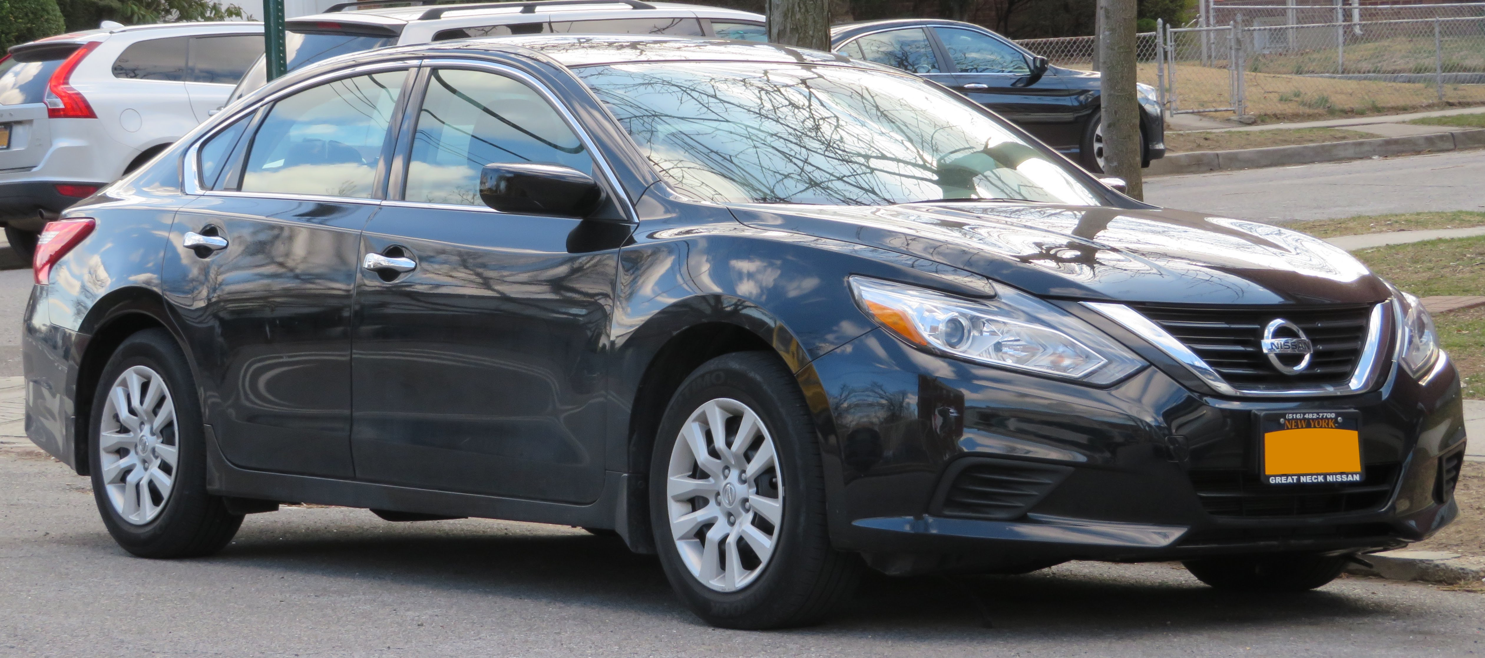 In Queens, New York